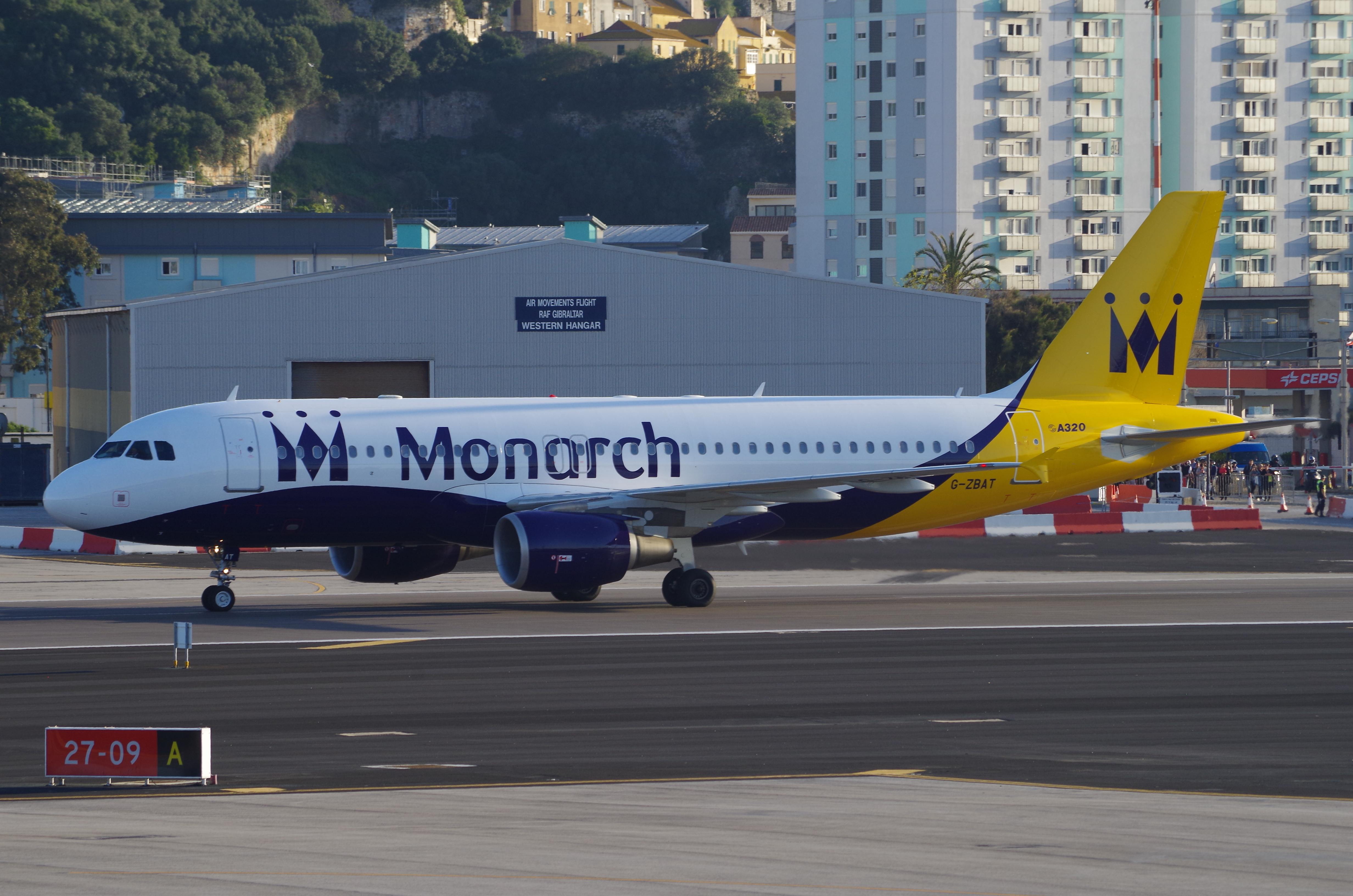 A Monarch Airbus A320-200 arriving at Gibraltar Airport as ZB574 from Manchester